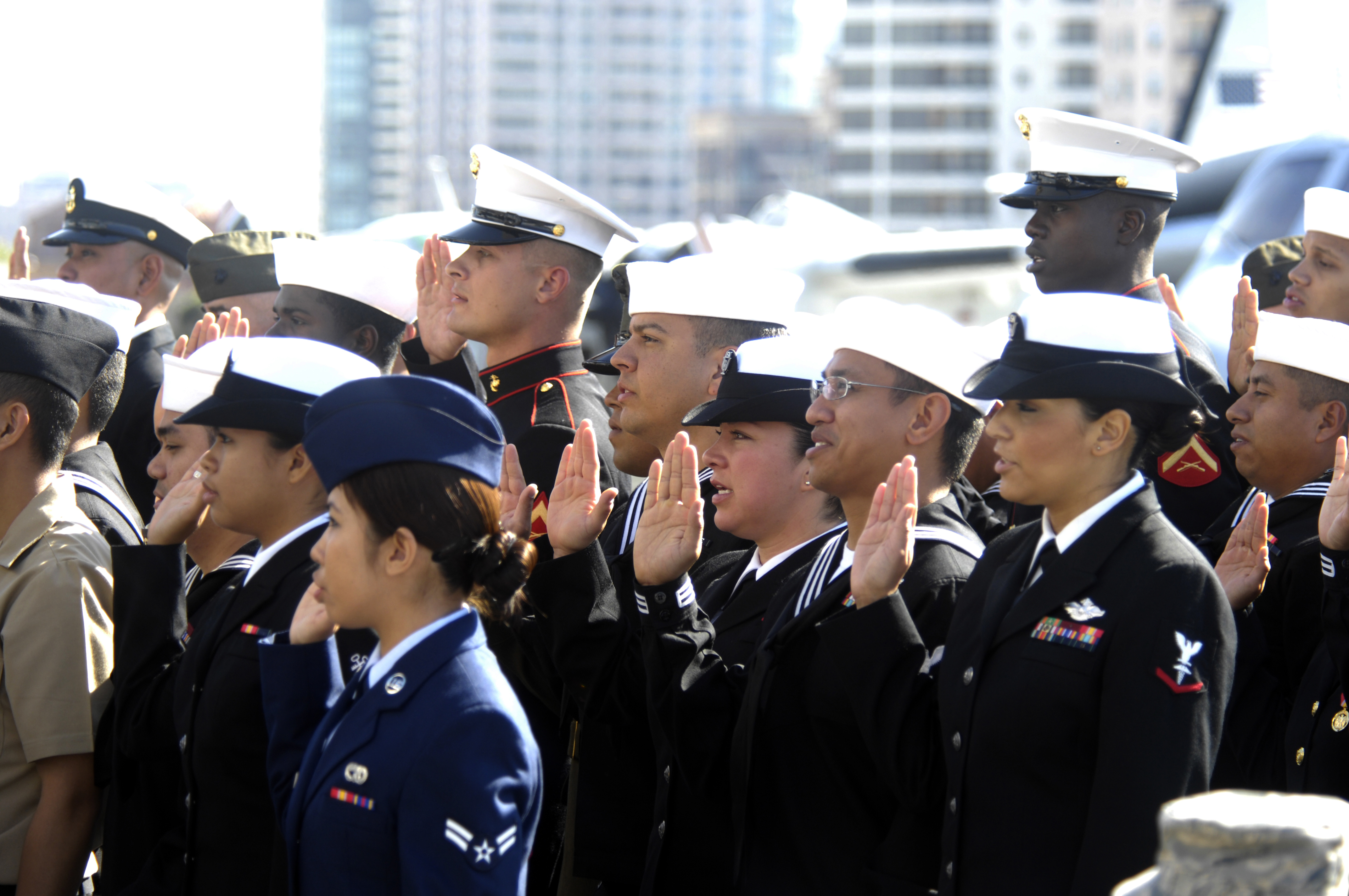 SAN DIEGO (Nov. 10, 2010) Seventy-four service members take the oath of allegiance during the 7th annual Veteran's Day Naturalization Ceremony aboard the USS Midway Museum. (U.S. Navy photo by Mass Communication Specialist 1st Class Eli J. Medellin/Released)